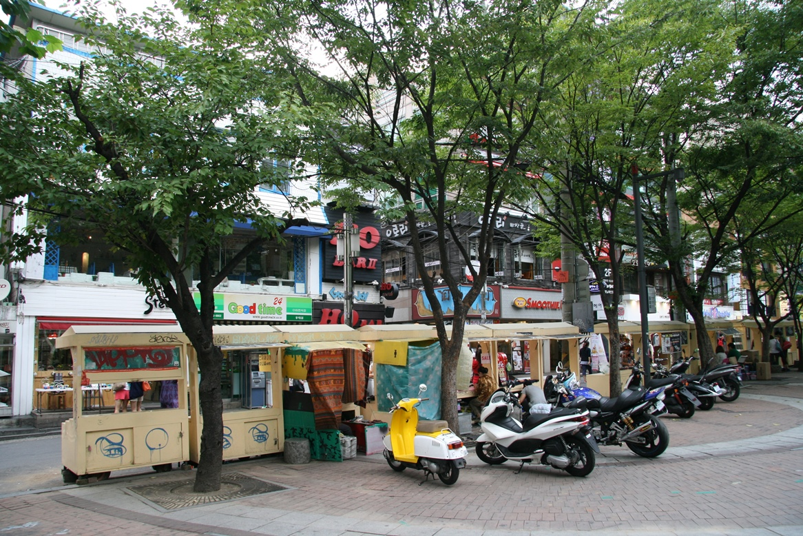 The back view of street merchants on Wausan-ro 21-gil at Hongdae Playground (or Hongik Children's Park) in Hongdae, Mapo-gu, Seoul in 2012